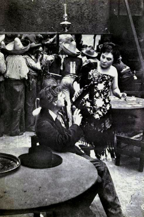 Still from the American film serial The Black Box (1915) with Frank MacQuarrie and an unidentified actress, facing page 282 of the novel. Caption: Marta tries to make friends with Craig.